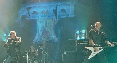 Accept photo